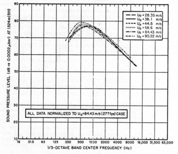 Trailing edge Noise